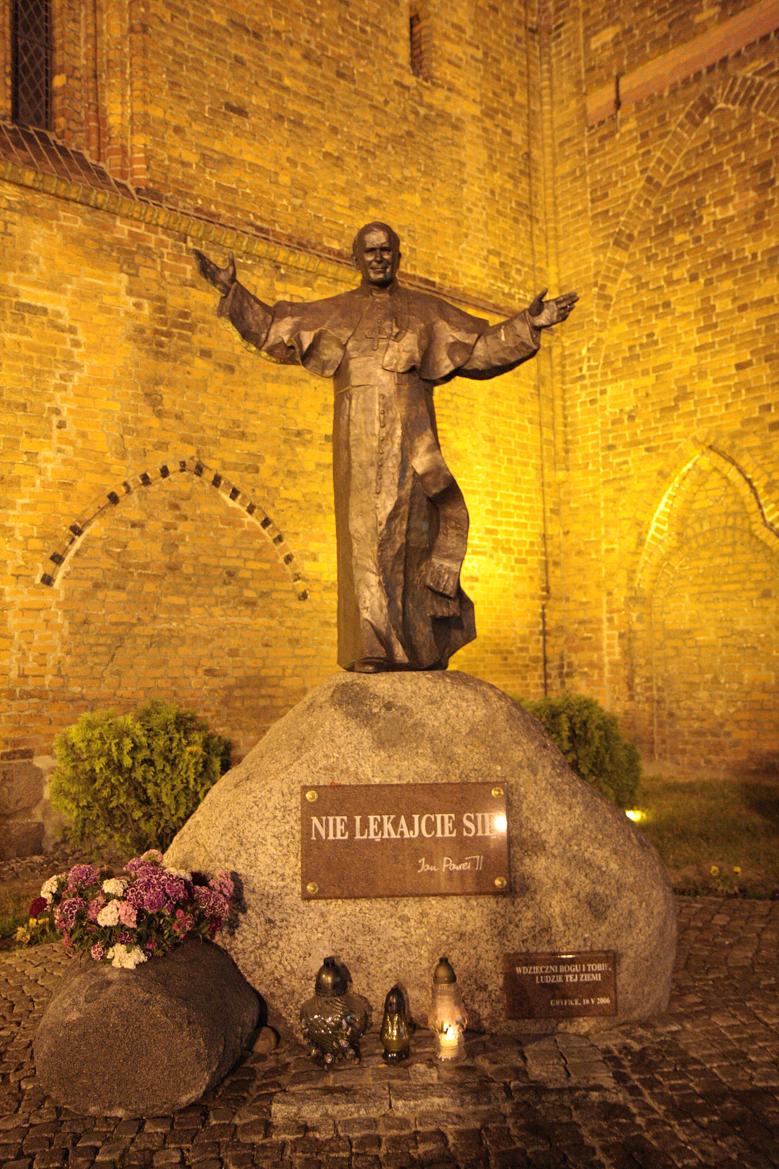 Pope John Paul II Monument in Gryfice, Poland